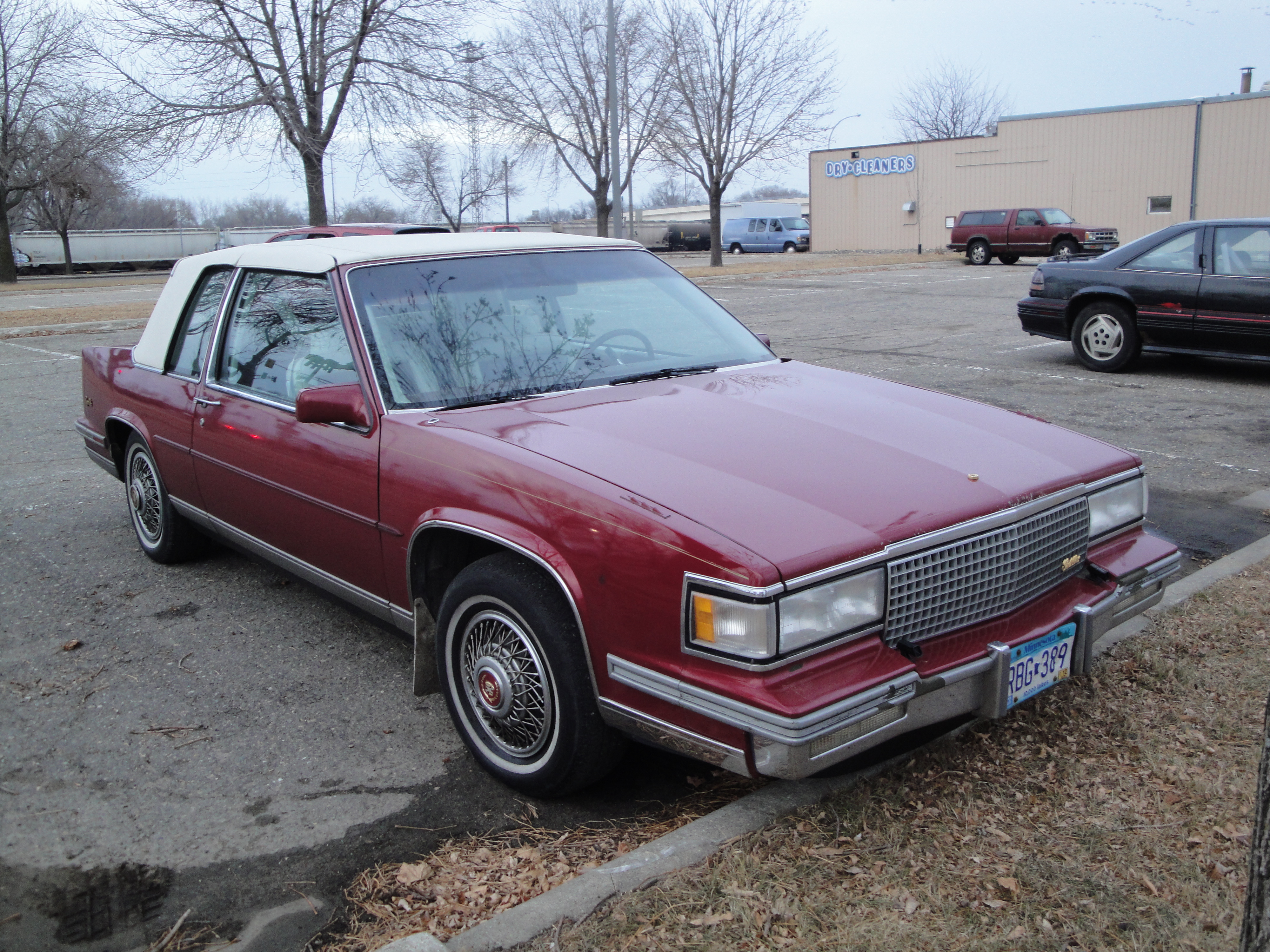 I was traveling to the Twin Cities for the Magnum's free oil change and 30K check up. I was surprised that not all the interesting old cars were tucked away.